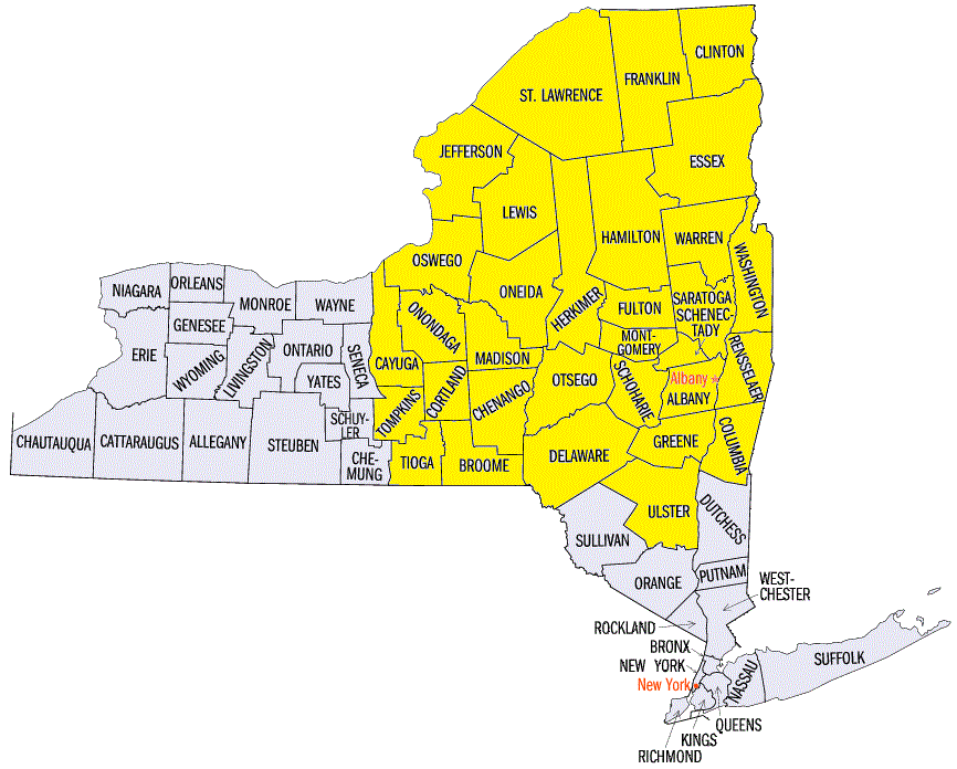 United States Northern District of New York counties.